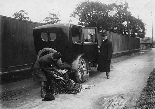 Teinosuke Kinugasa (center) and Hideo Fujino (right) in Hakucho no Uta (白鳥の歌) directed by Eizō Tanaka (1920)